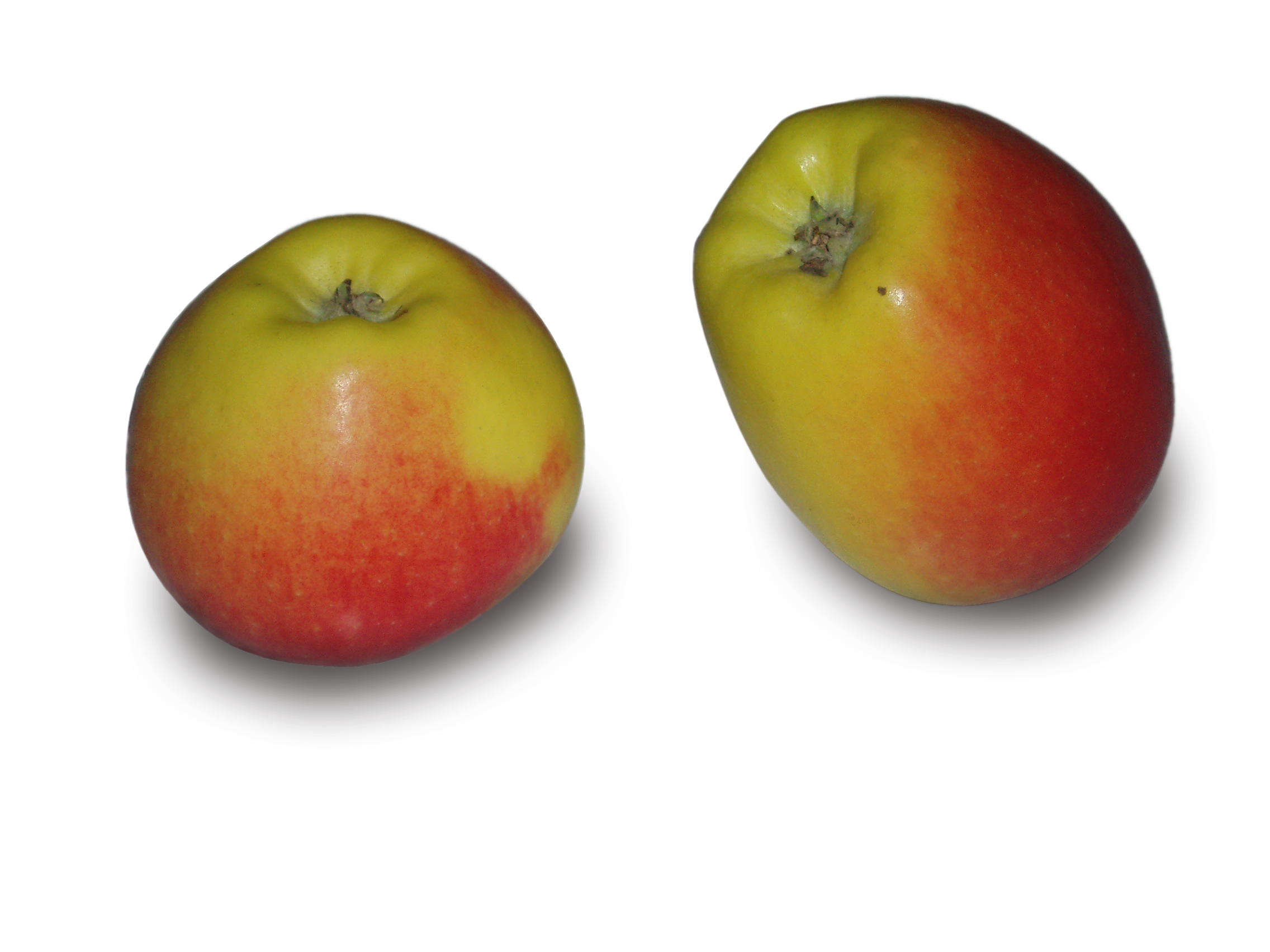 Kanzi apple